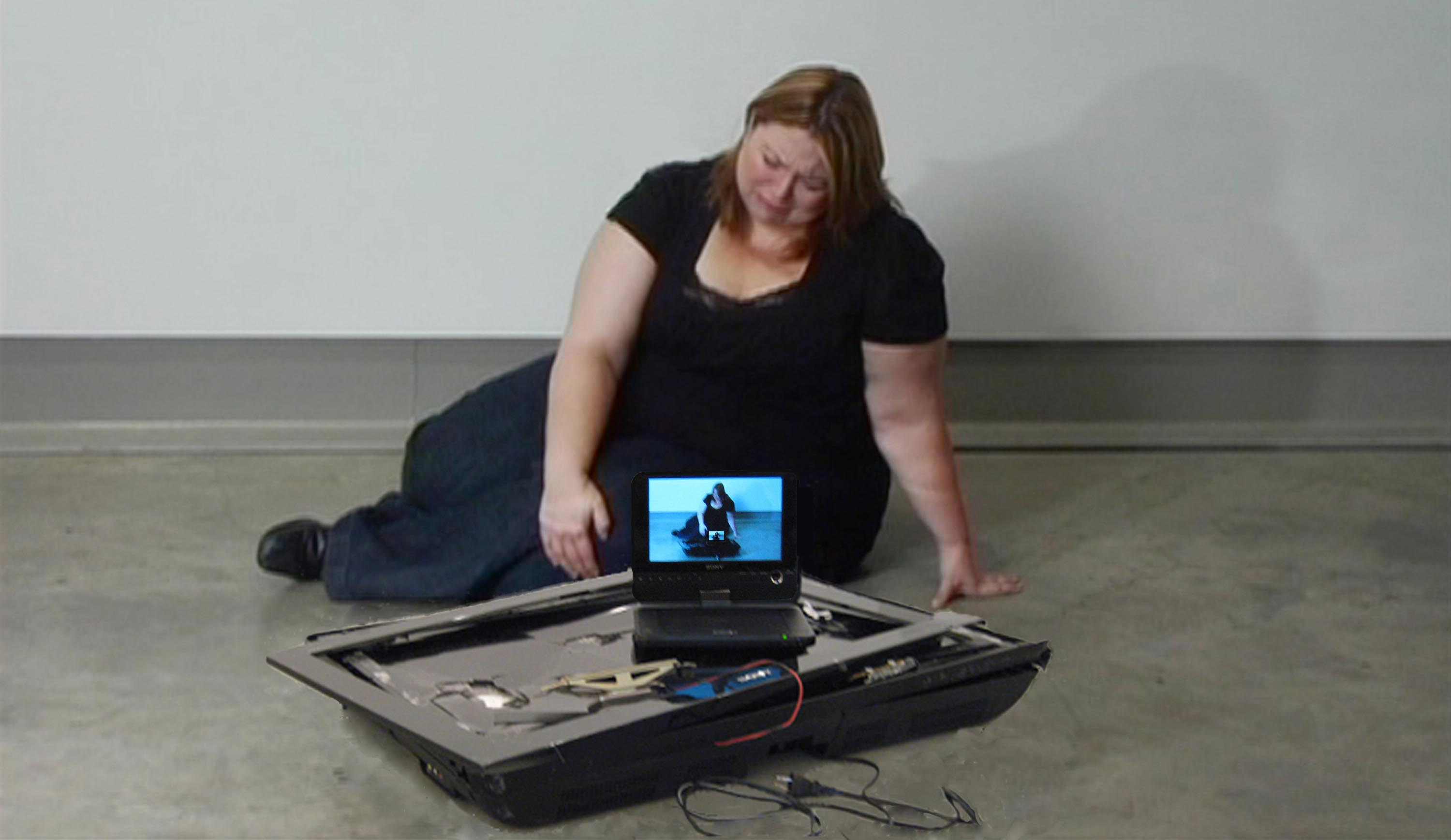 Still image from an installation and performance work by Einat Amir